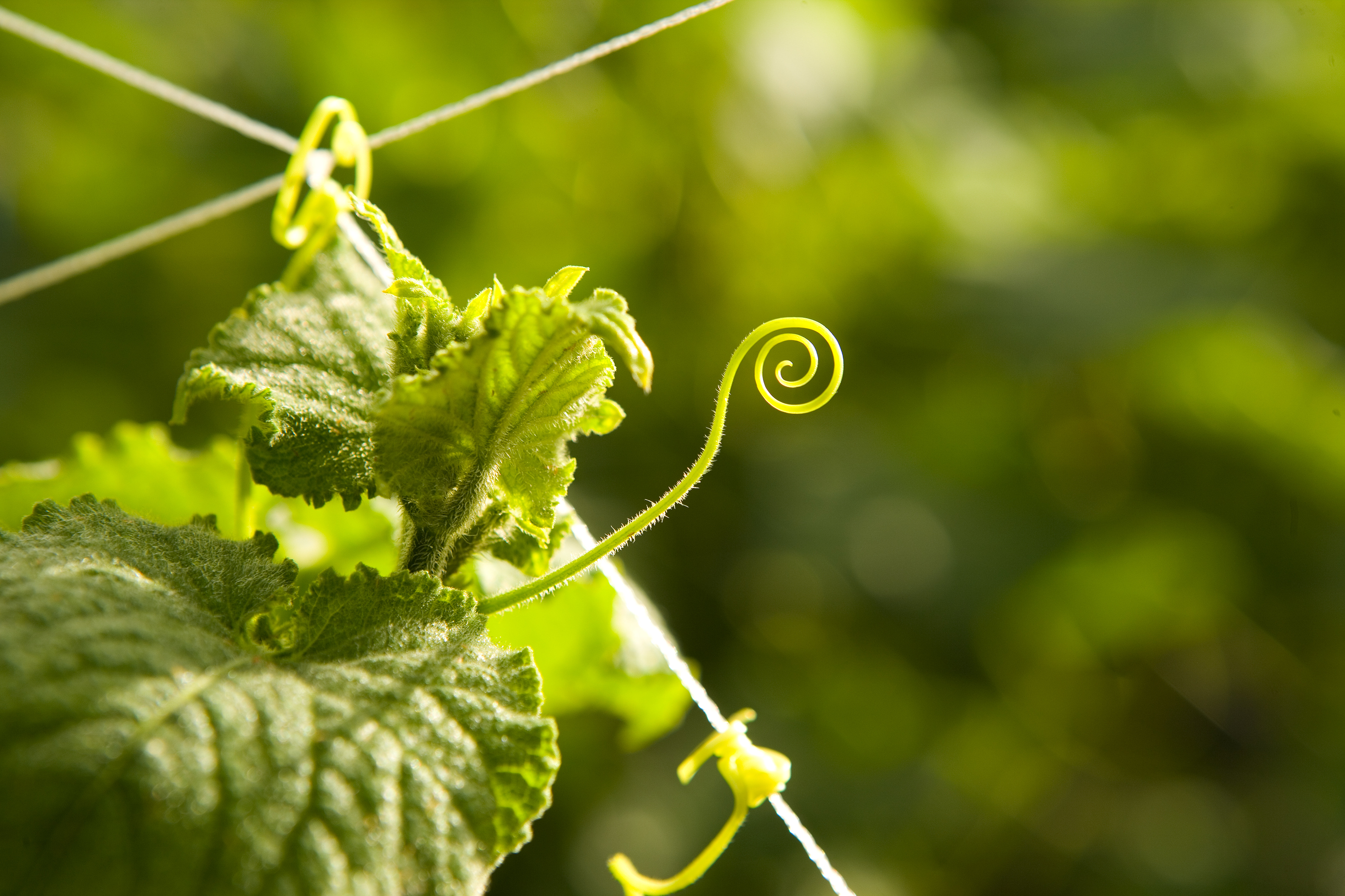 Close up of squash vine at Ho Farms in Kahuku, HI